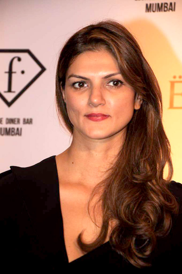 Nandita Methani graces the Moet N Chandon bash at F bar